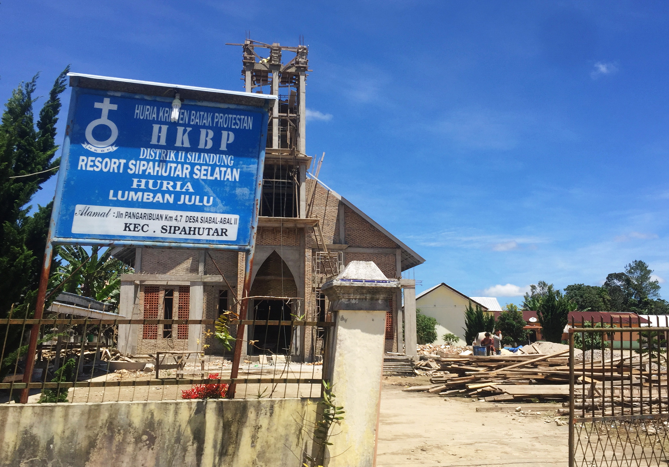 HKBP Lumban Julu, Church in Lumban Julu, Siabalabal II, Sipahutar, North Tapanuli